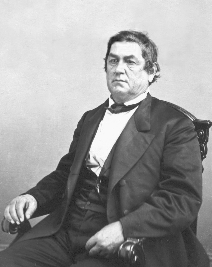 Robert Mercer Taliaferro Hunter, politician from Virginia.